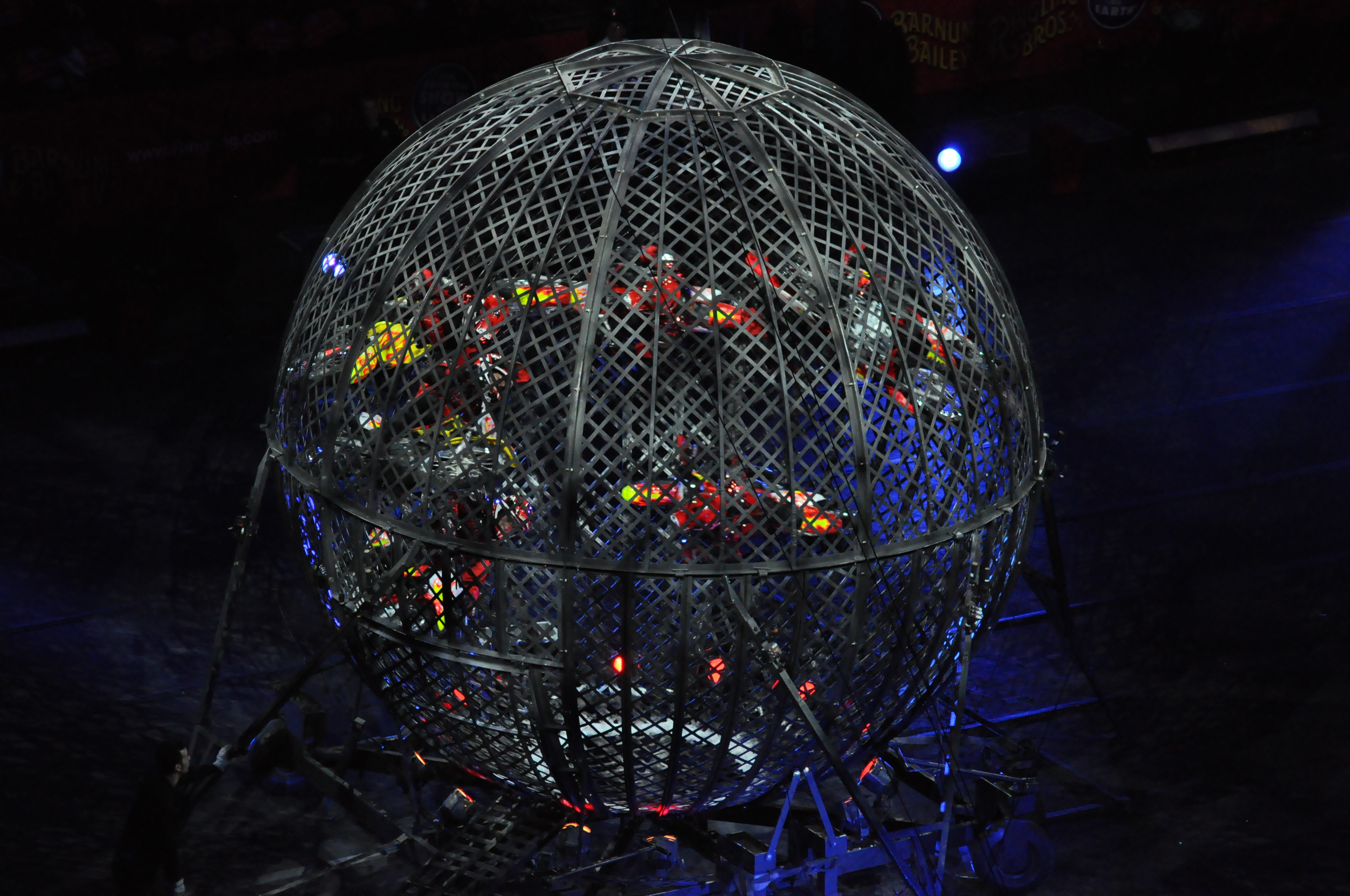 Ringling Brothers Circus Torres Family